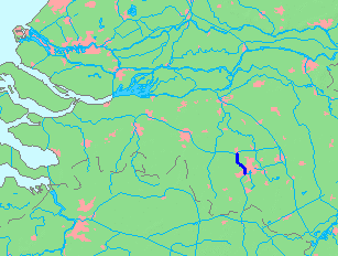 Location of the Beatrixkanaal in the Netherlends